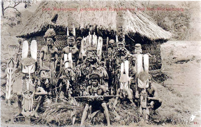 Early postcard addressed from Herbertshohe (Deutsch Neu-Guinea) to Sydney, 190(?). Published by the Norddeutschen Lloyd shipping company